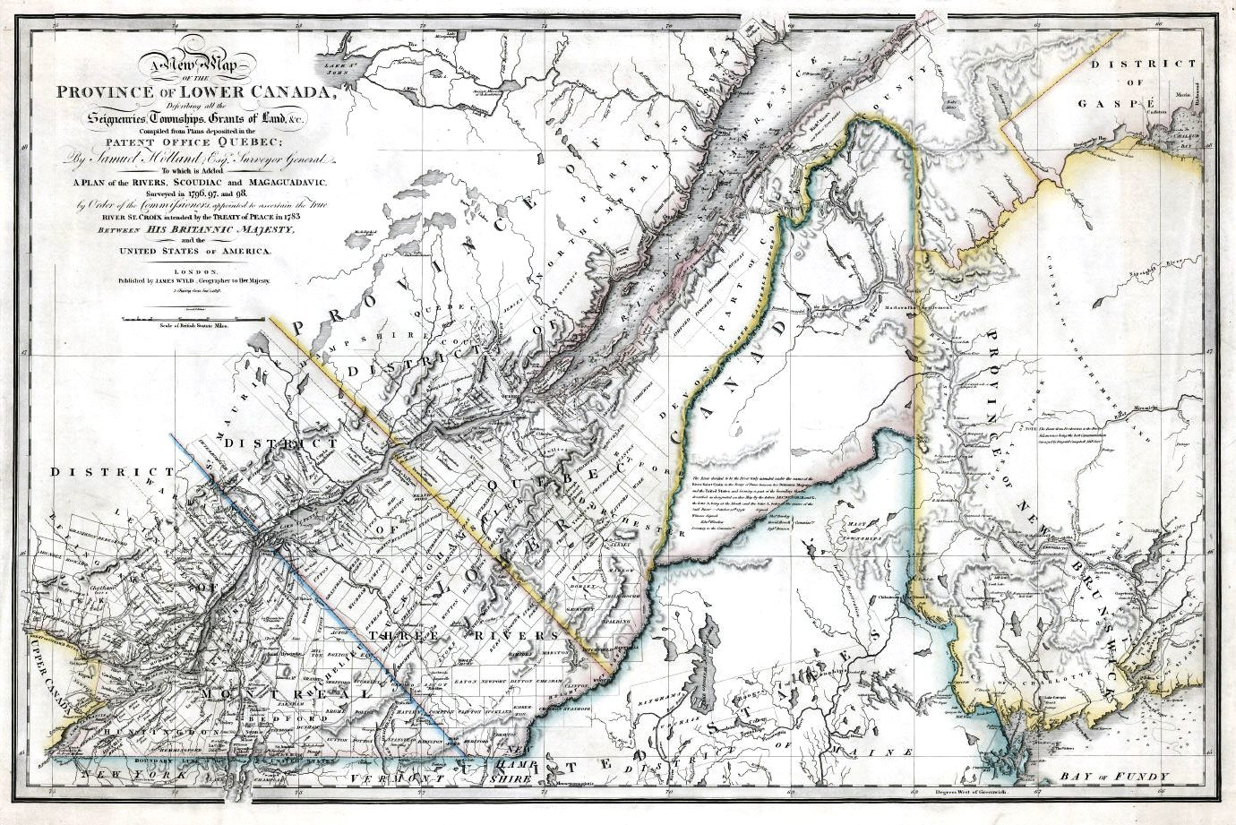 Map Of The Province Of Lower Canada